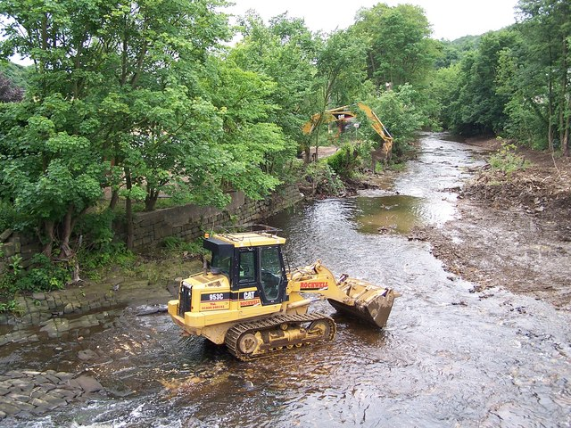 2nd July 2008 - Caterpillar 953C tracked loader at work, River Don 'Clean Up' continues. See also 718943, 877567, 877559, 877598, 877605.